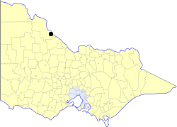 Location of the former City of Swan Hill within Victoria.